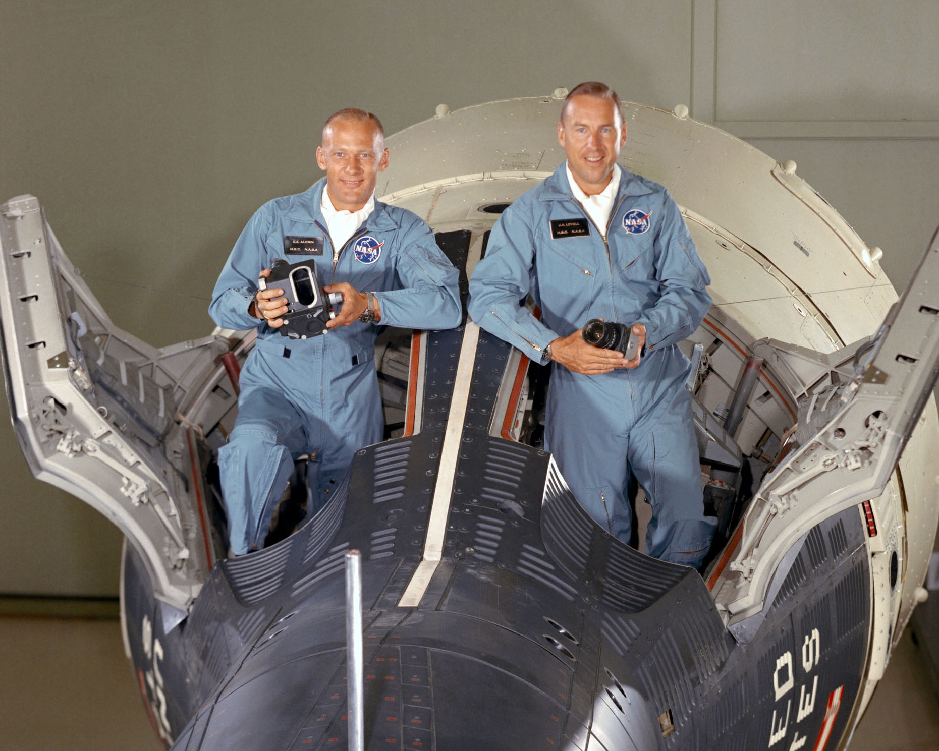 Portrait of Gemini 12 prime crew. Astronauts James A. Lovell Jr. (right), command pilot, and Edwin E. Aldrin Jr., pilot, are seated on a mock-up of the Gemini spacecraft.